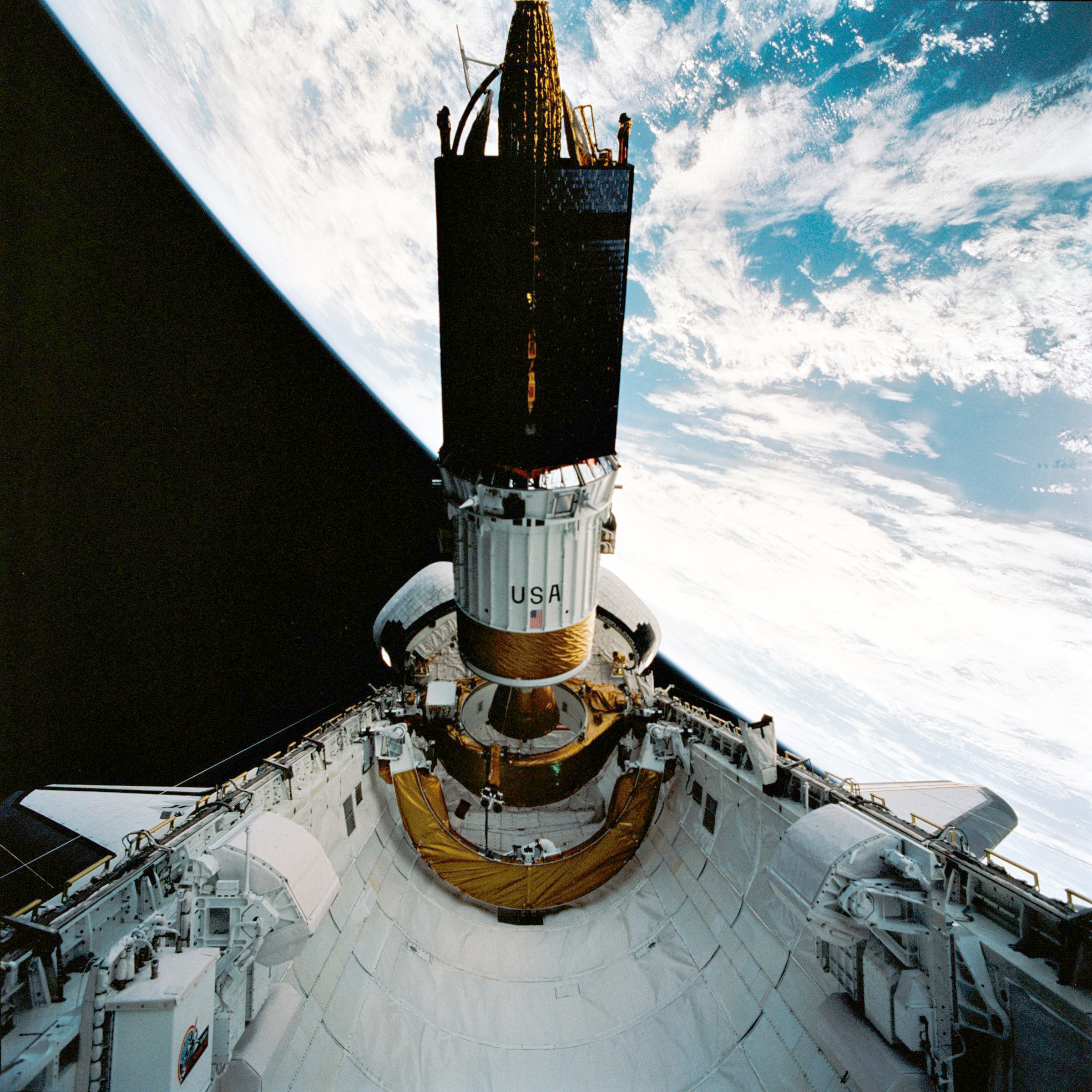 A TDRS satellite is deployed during STS-54. During STS-54, with Endeavour's, Orbiter Vehicle (OV) 105's, reaction control system (RCS) thrusters inhibited, the pyrotechnic separation device physically separates the inertial upper stage (IUS) / Tracking and Data Relay Satellite F (TDRS-F) spacecraft from the payload bay (PLB) at approximately 0.4 foot per second. The airborne support equipment (ASE) aft frame tilt actuator (AFTA) table at 58-degree deployment position, the forward frame cradle, and the released umbilical boom appear below the IUS/TDRS spacecraft combination. Stowed on top of the IUS are TDRS-F's solar array panels, its single access antennas, and the SGL antenna. In the foreground is Diffuse X-ray Spectrometer (DXS) payload. On the left is the DXS starboard and the Hitchhiker avionics. On the right is the port DXS. The entire scene is backdropped against the Earth's limb and its blue and white surface.